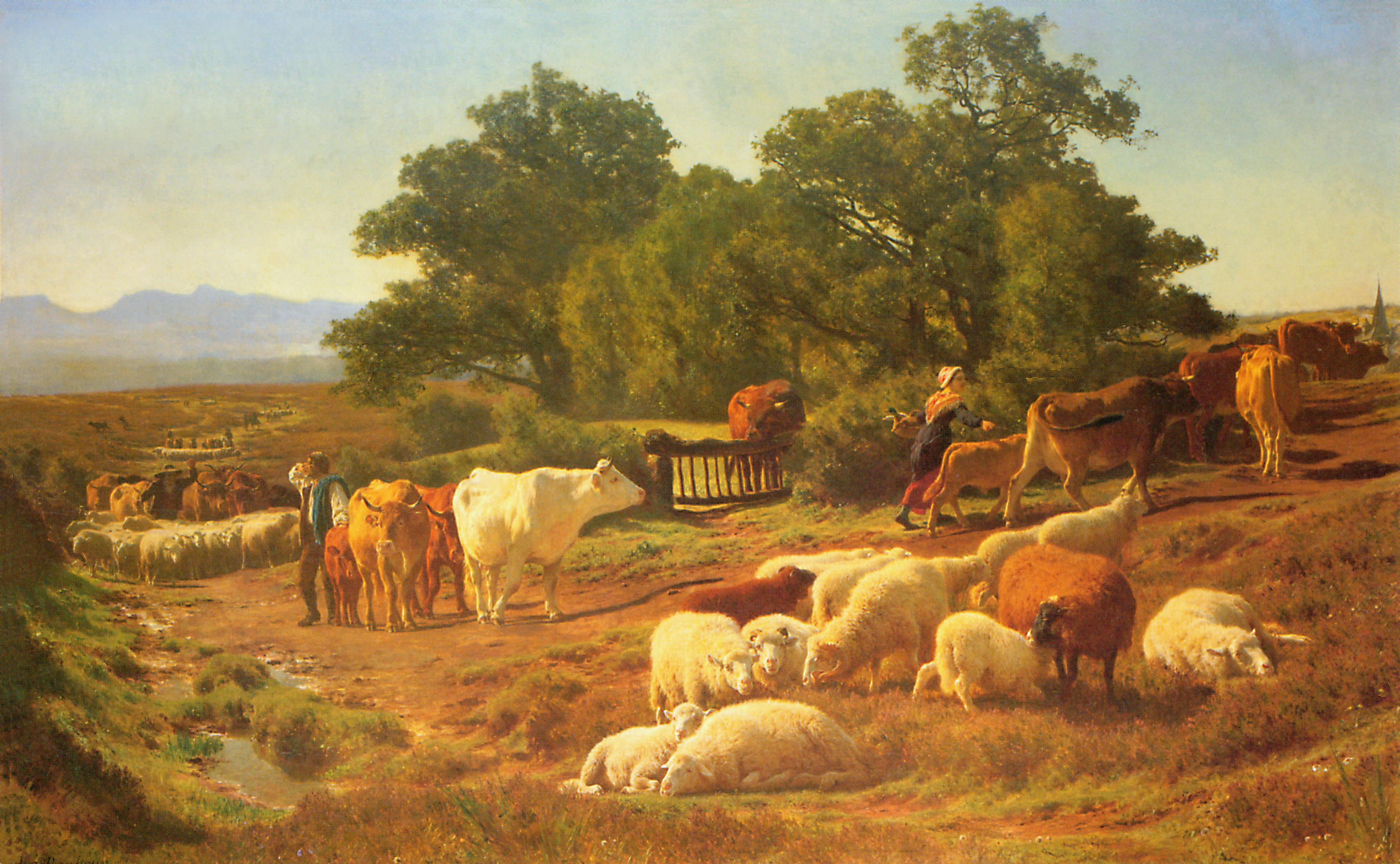 The way to market